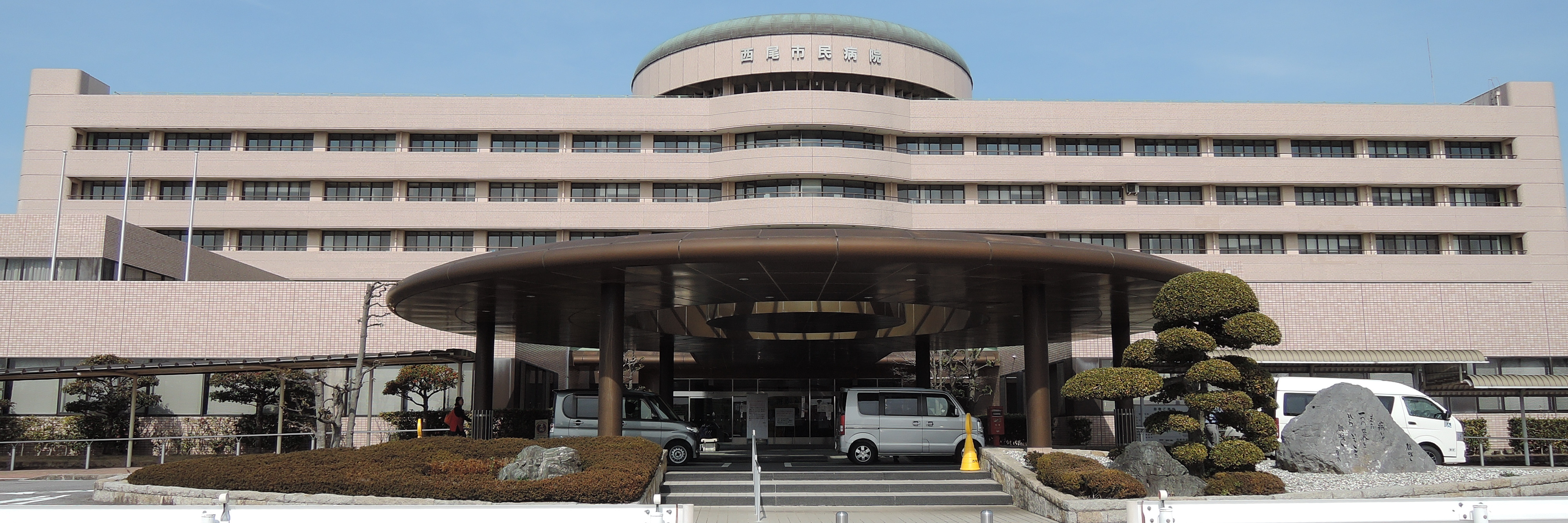 Nishio municipal hospital, Aichi prefecture, Japan